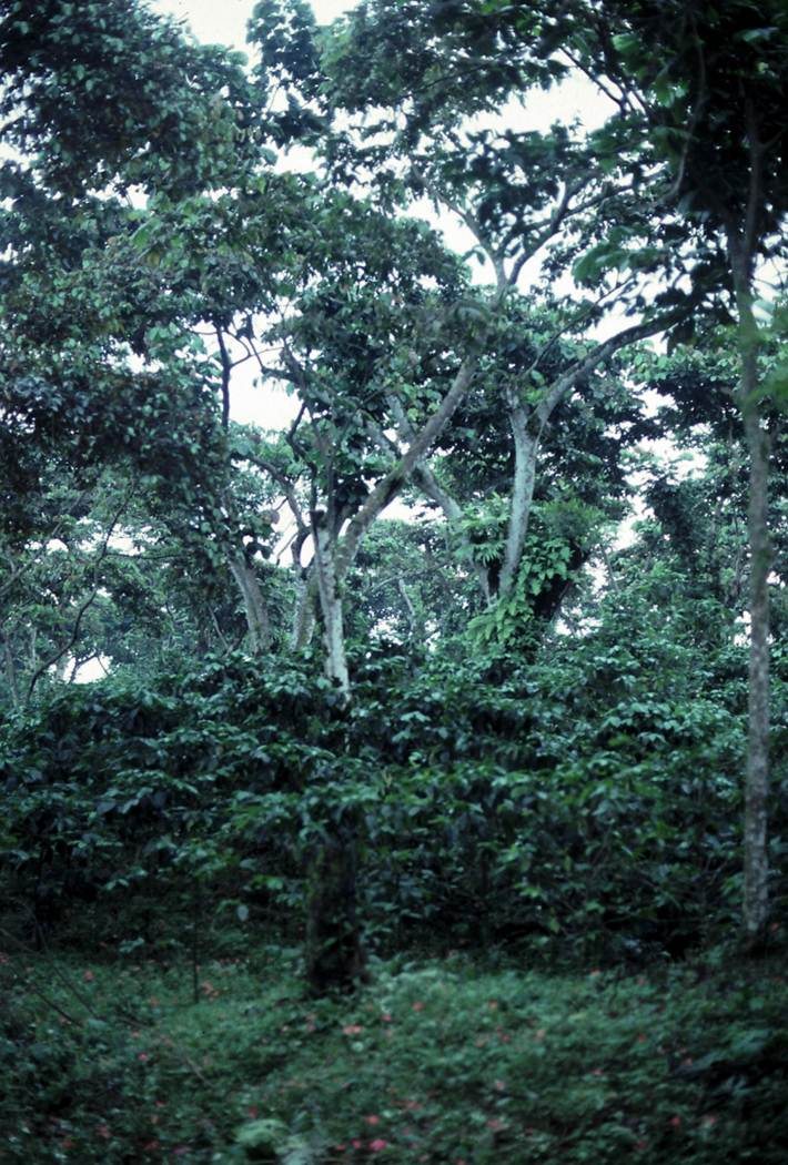 Image of canopy trees over a traditional shade grown coffee plantation in Guatemala. Most trees are left undisturbed and coffee shrubs are planted in the understory.